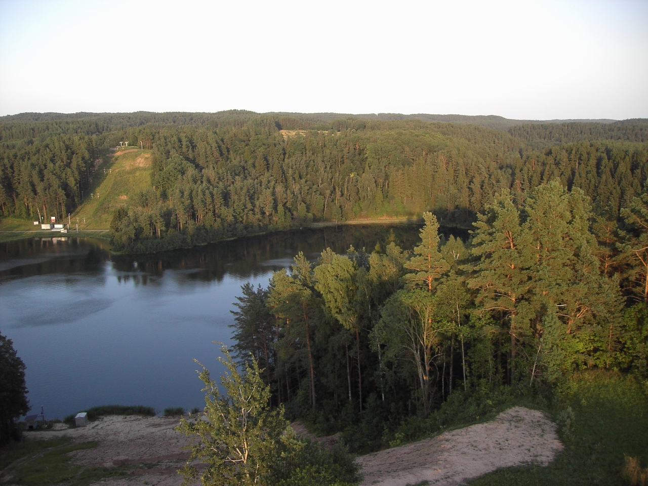 Lake Žaliasis (Šiekštys), Ignalina, Lithuania